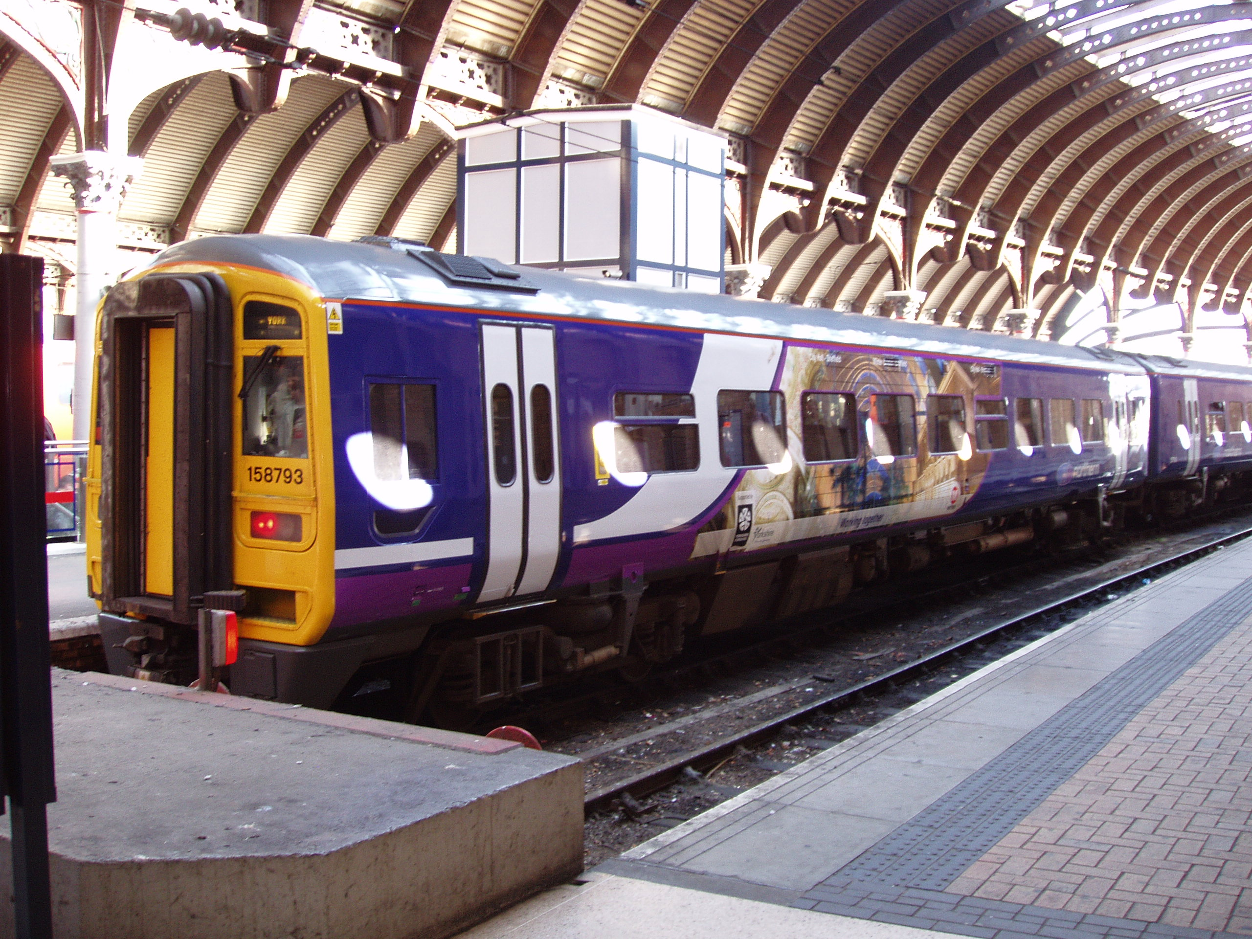 British Rail Class 158 at York railway station